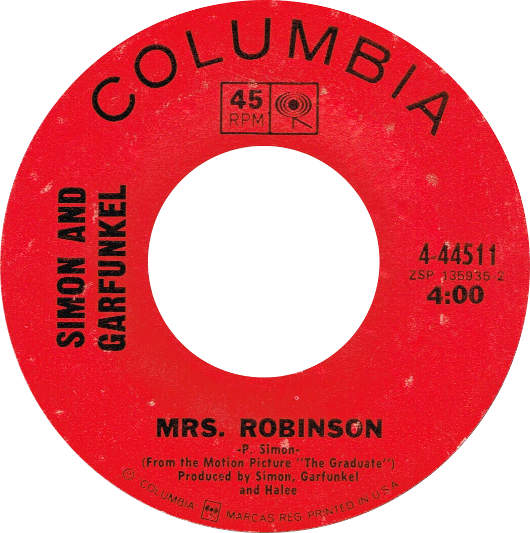 One of Side-A labels of the US vinyl single "Mrs. Robinson" by Simon and Garfunkel, crediting 1967 film The Graduate as the song's source. One of subsequent pressings credits the parent album Bookends (1968) as the source.